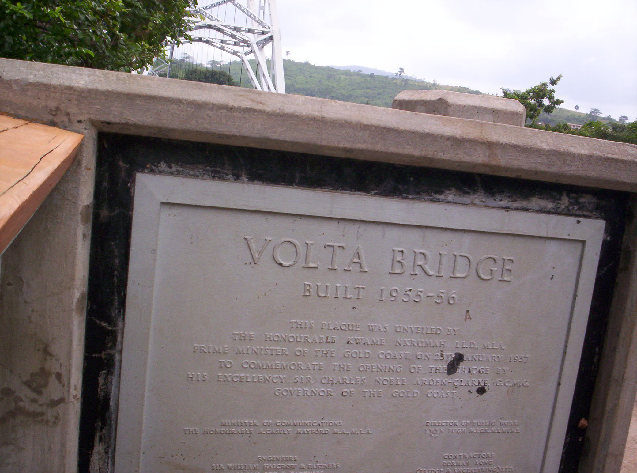 Volta Bridge was built by the British with a plague pasted on it